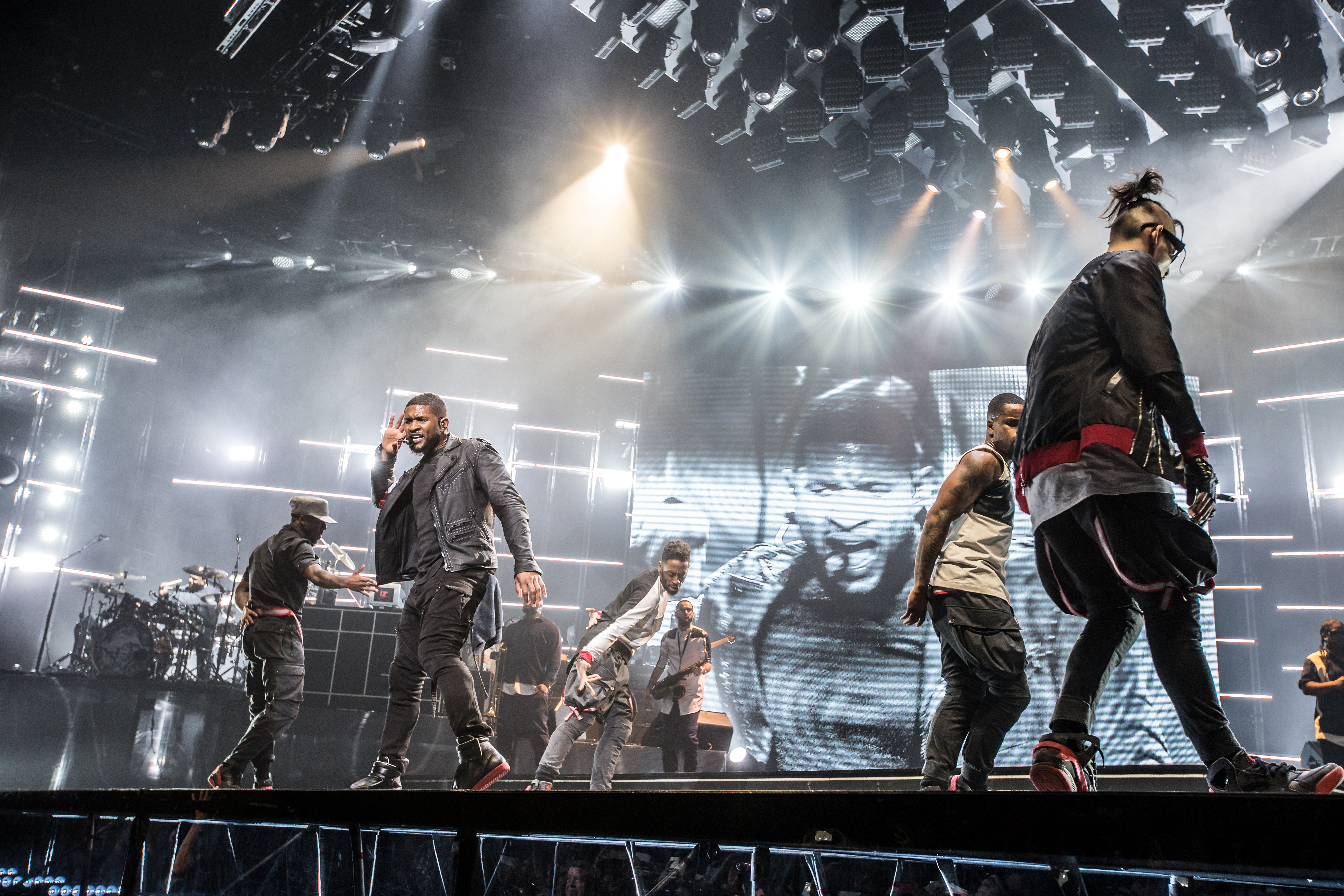 Usher, #URXTOUR 2015© Copyright: AS Sportfoto / Soerli Binder,www. as-sportfoto.de,S.Binder Hauptstr. 143 69168 Wiesloch, / ,USt.IdNr. DE240155184